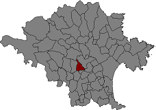 Location of Vilafant in Alt Empordà